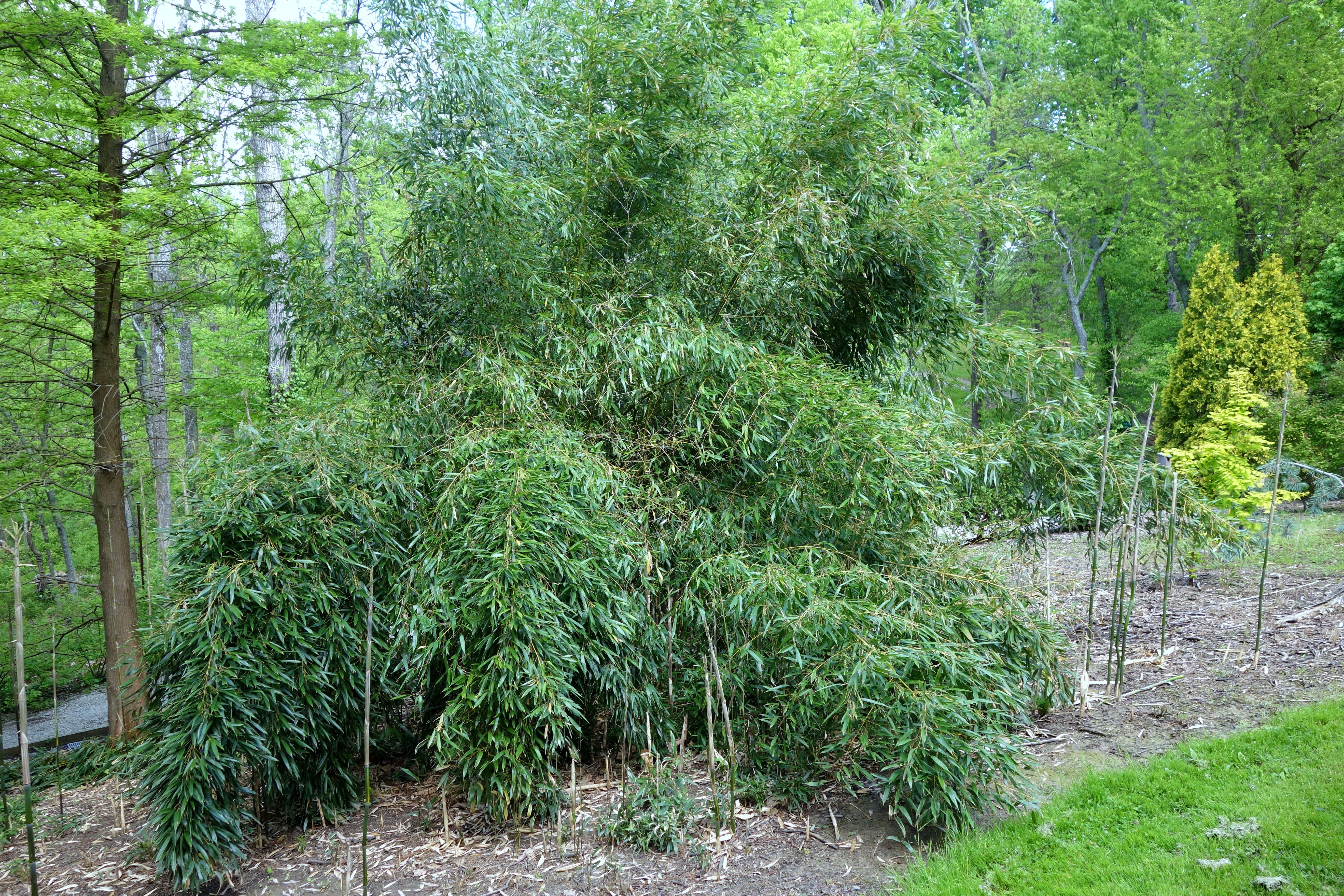 Botanical specimen in the Stanley M. Rowe Arboretum, Indian Hill, Ohio, USA.